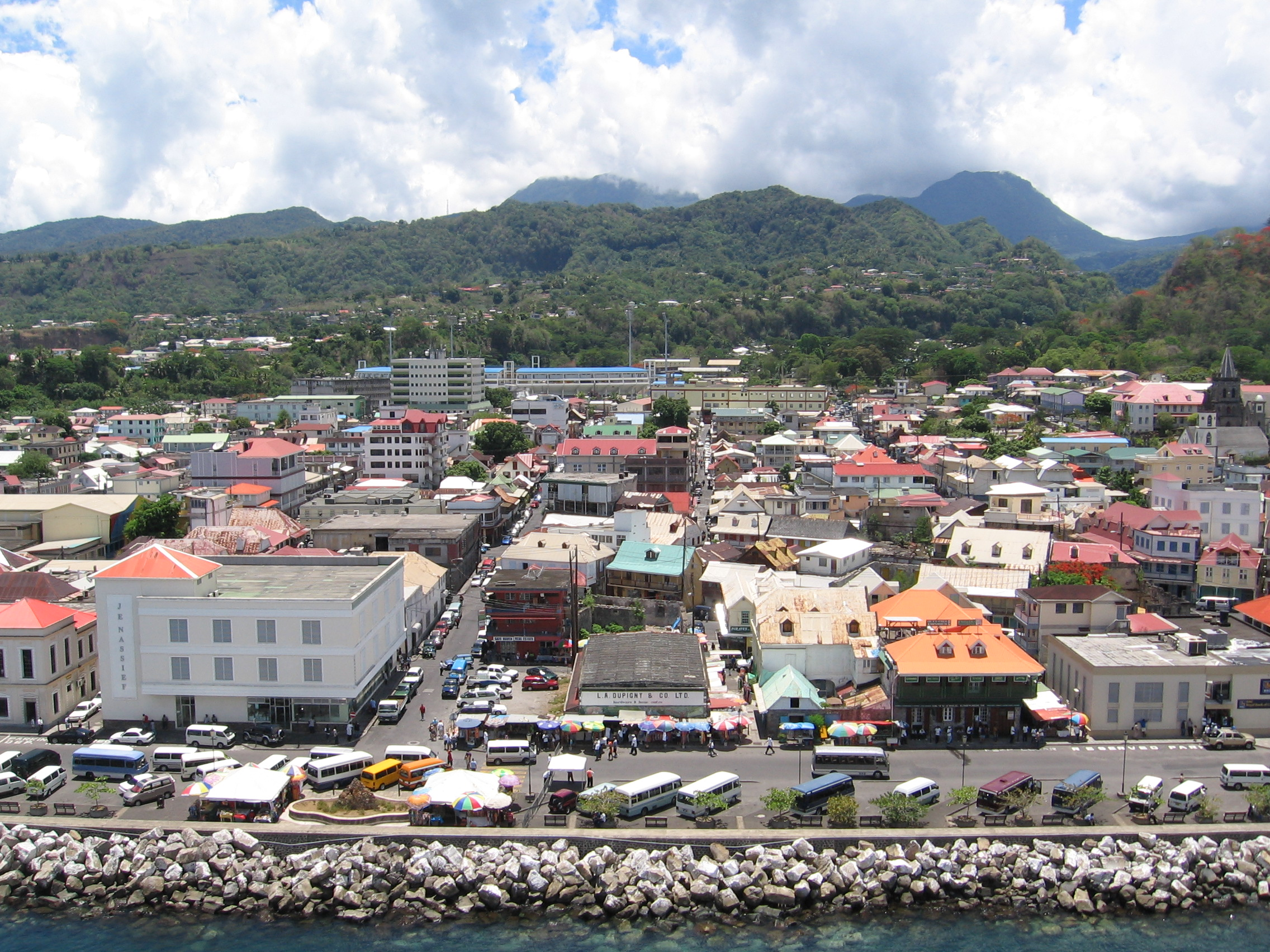 Rouseau, the capital city of the island of Dominica.